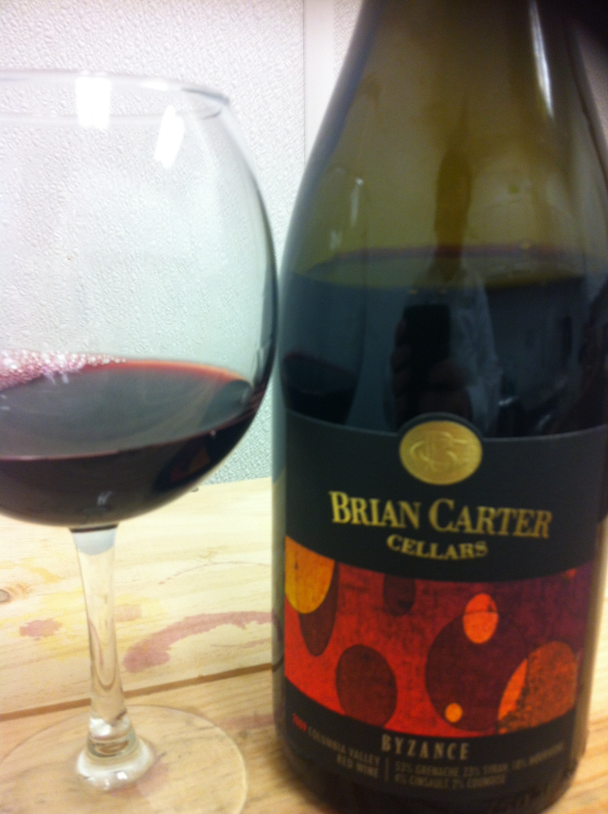 A "Rhone style" blend from the Washington wine region of the Columbia Valley AVA.